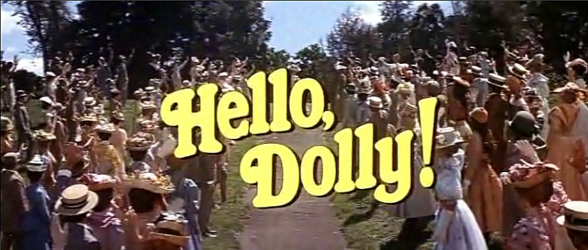 Screenshot from the trailer for the film Hello, Dolly! (film)